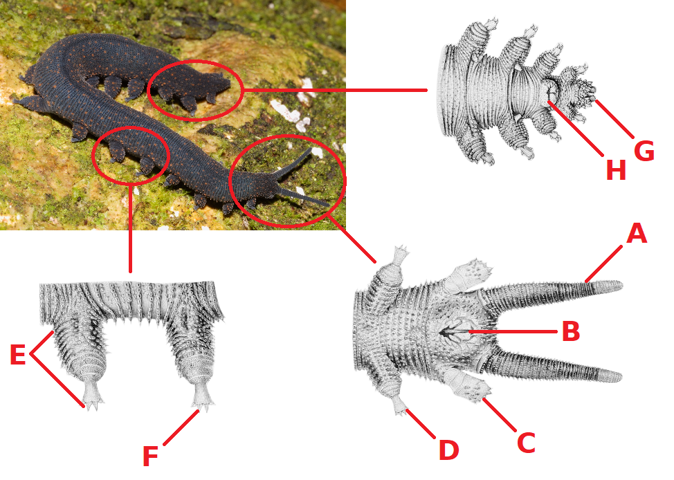 Typhloperipatus, Onychophoran from northeastern India